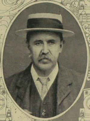 Thomas Lowth, General Secretary of the General Railway Workers' Union and future Member of Parliament